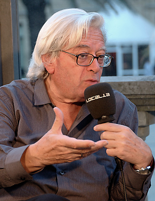 Antonio Mercero (born 7 March 1936, Spanish film director) at the Festival de Cine de San Sebastian 2007.